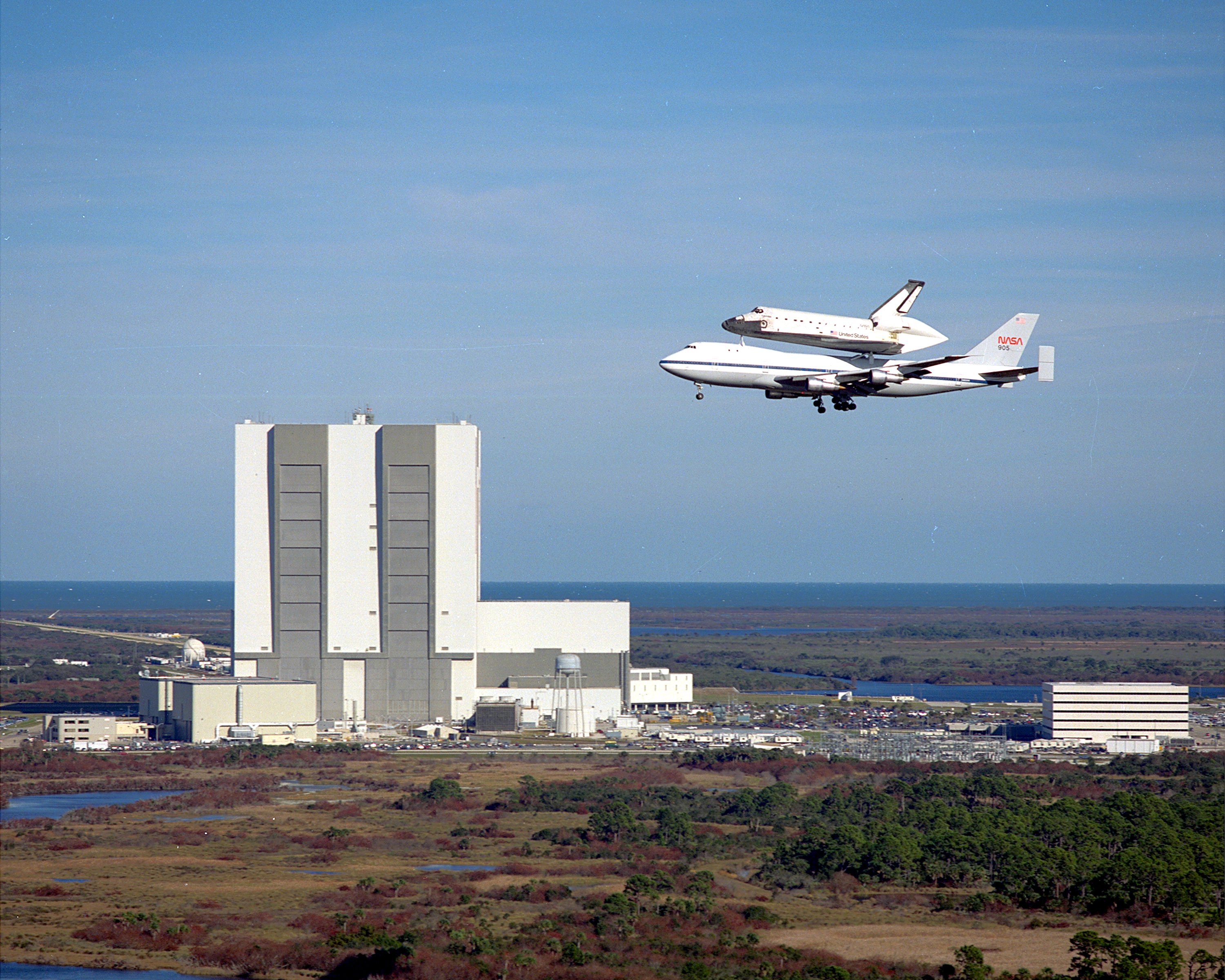 The Space Shuttle Columbia, returning to KSC after the successful STS-32 mission, is poised atop the Shuttle Carrier Aircraft (SCA) as the duo fly by the Vehicle Assembly Building (VAB) at KSC January 26. Columbia, carrying the Long Duration Exposure Facility (LDEF) in its payload bay, was compleitng a two-day ferry flight from Edwards Air Force Base, California. Landing at the Shuttle Landing Facility occurred a few moments later at 3:30 p.m.